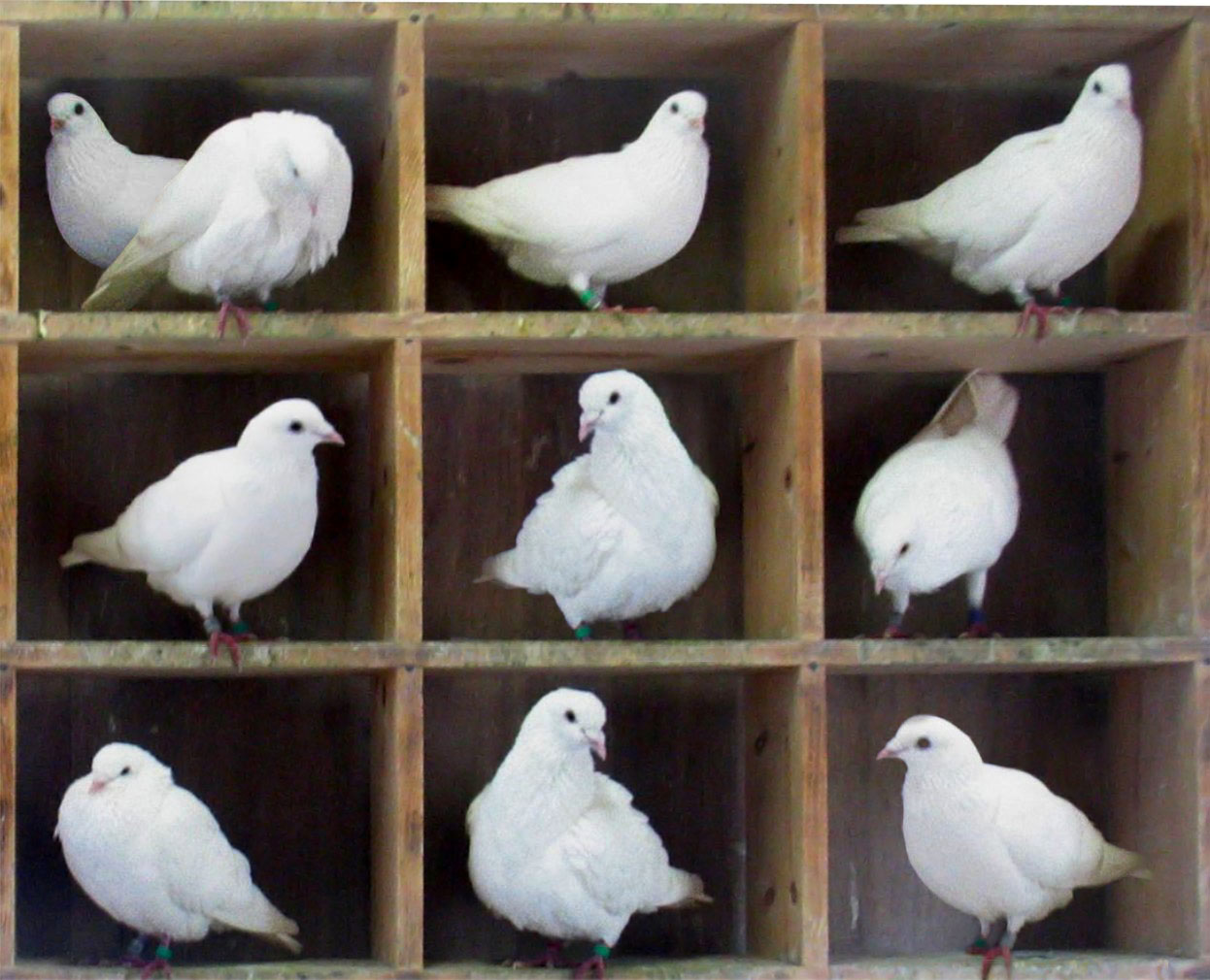 Illustration of pigeonhole principle